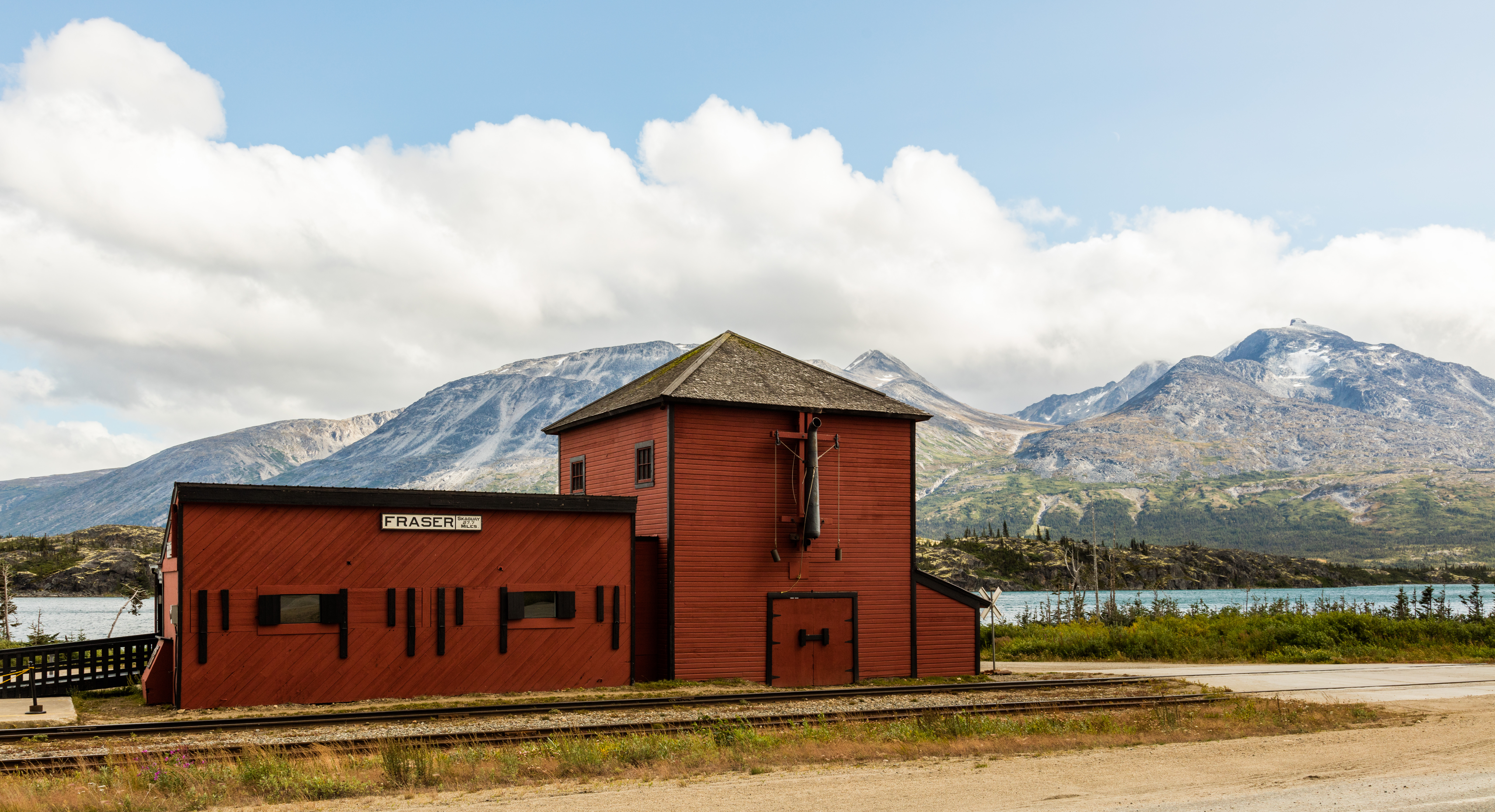 Fraser railway station, Columbia Británica, Canadá